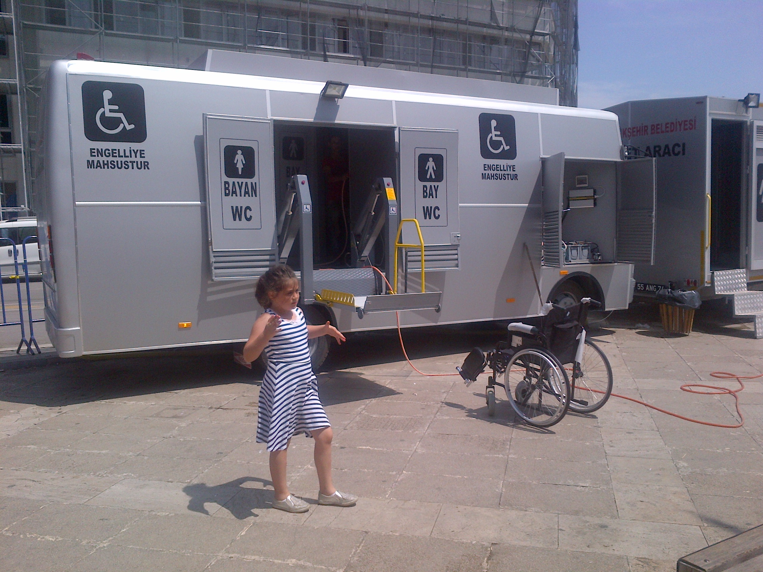 Toilet for disabled people with wheelchairs in Samsun, Turkey.